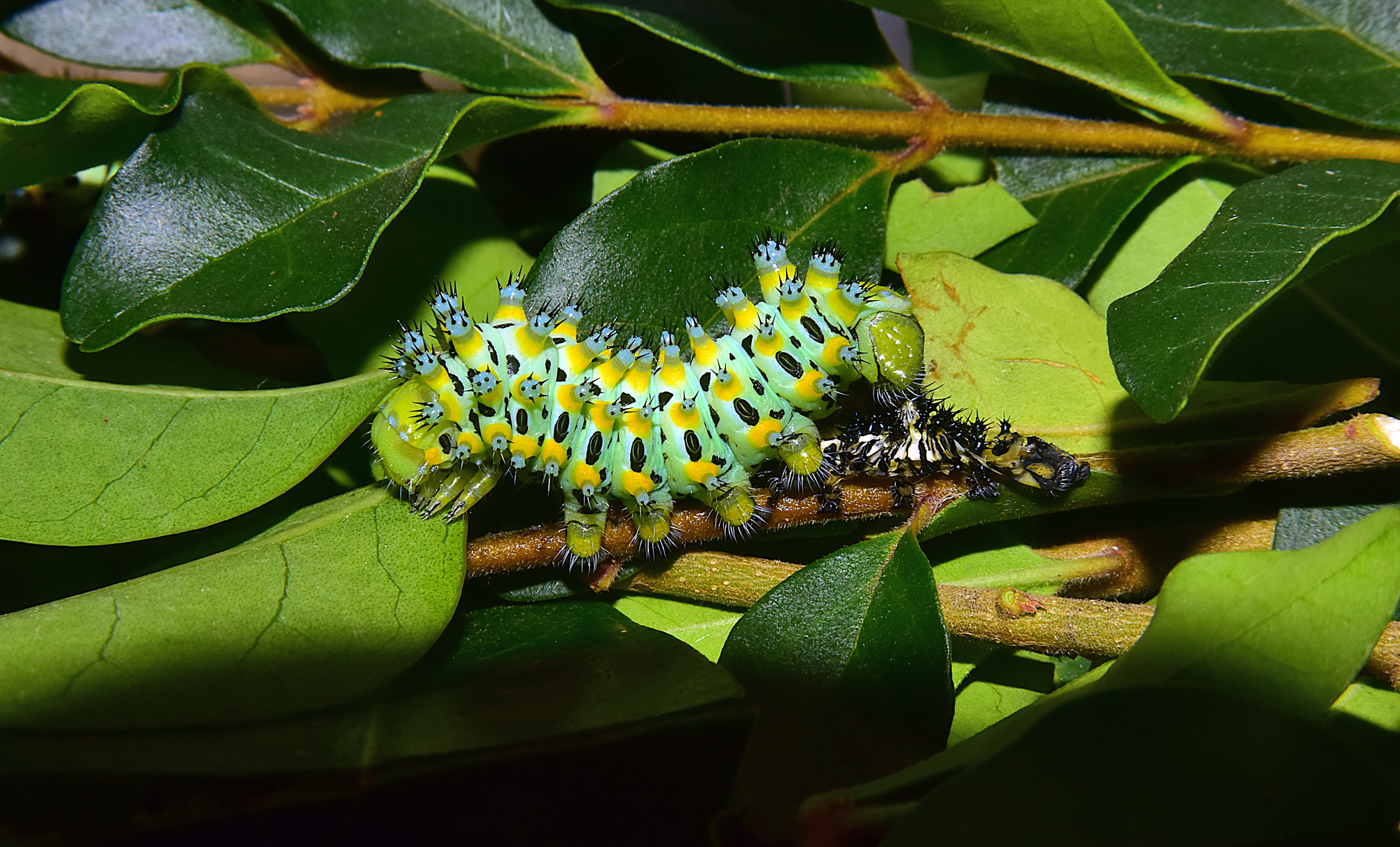 Larva of moth, genus Saturnidae